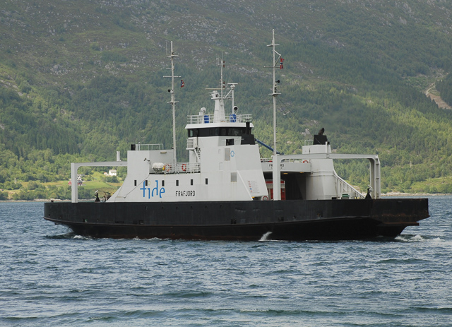 MF Frafjord, photographed in 2009.